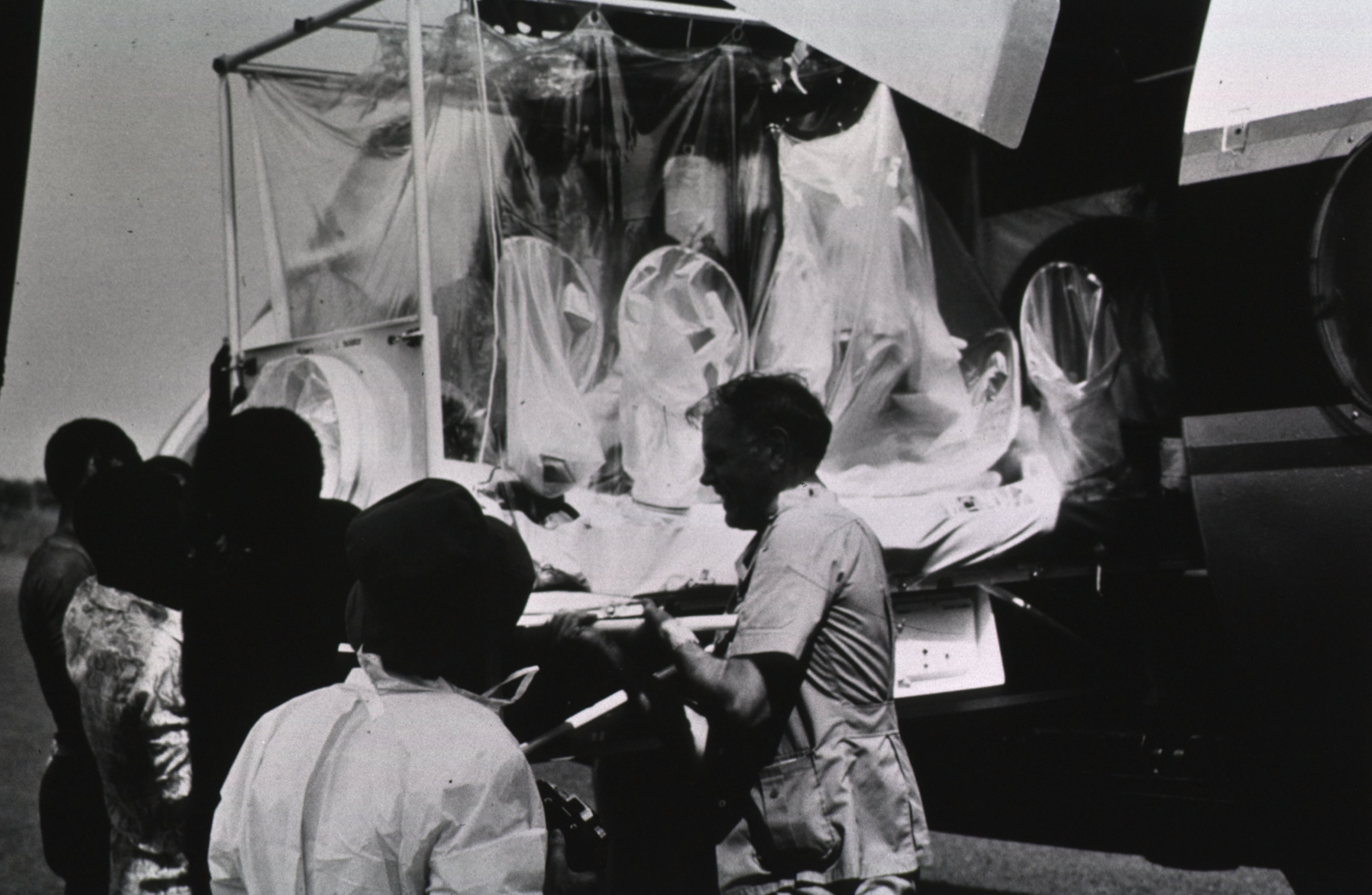 "Several people load a patient enclosed in a plastic bubble into an airplane."